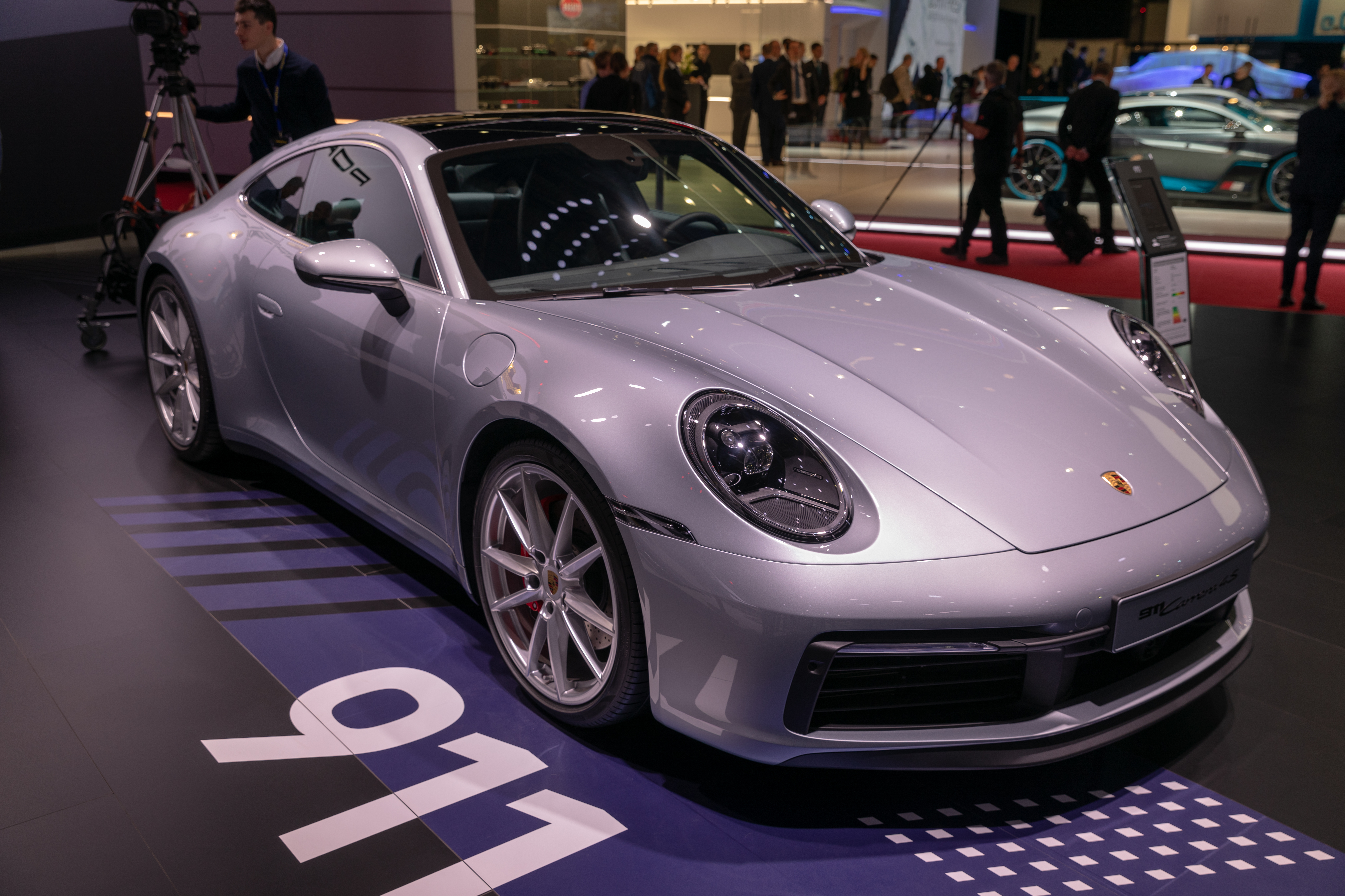 Geneva International Motor Show 2019, Le Grand-Saconnex